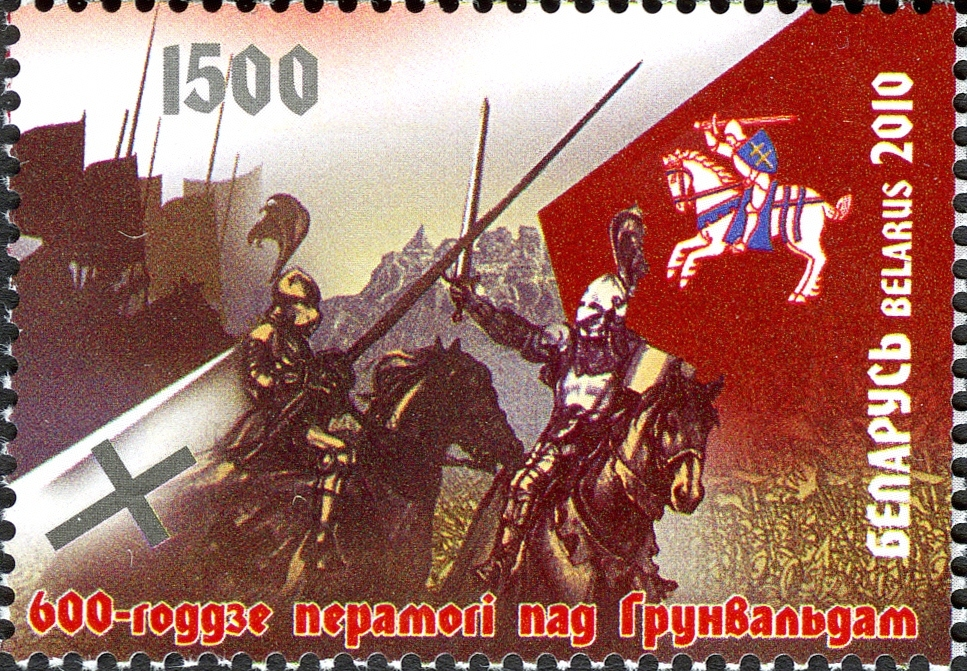 Stamp of Belarus